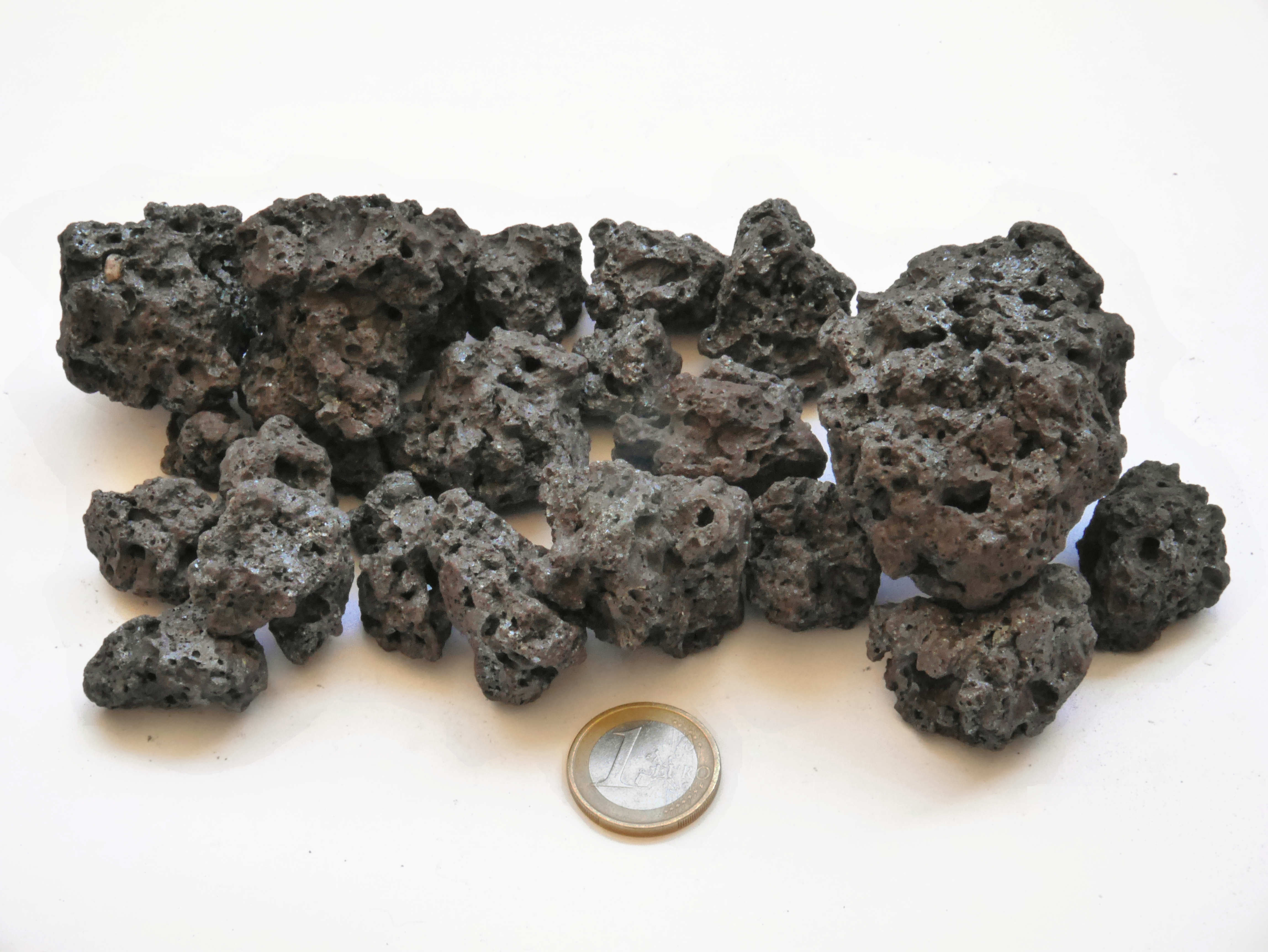 Sintered iron ore used in steel production, just before being charged in a blast furnace. This sinter was produced by the Dwight-Lloyd process and screened. A 1 euro coin gives the scale.